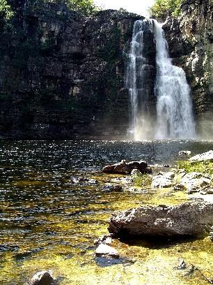 © Leonardo C. Fleck